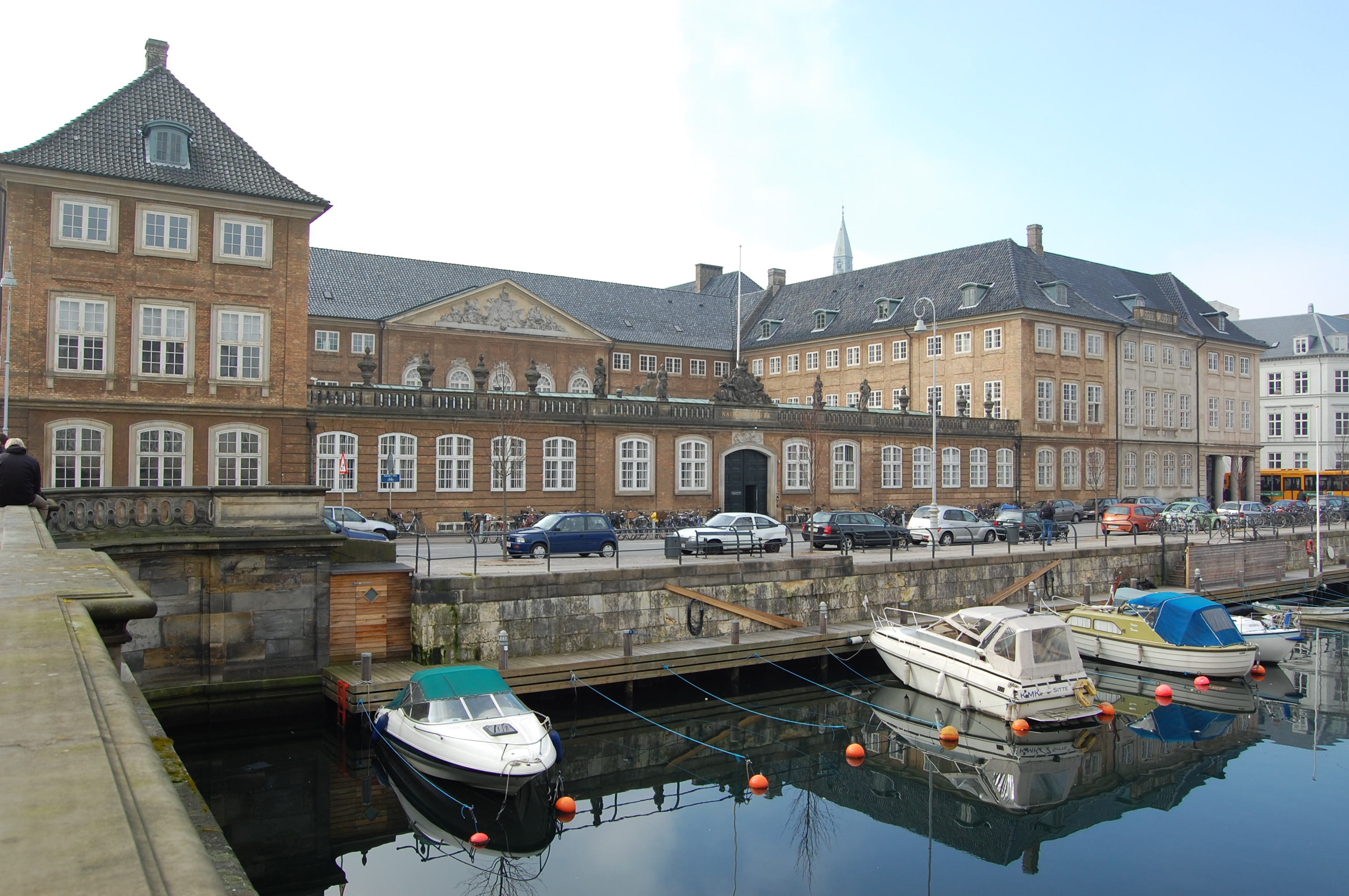 The Prince's mansion (Danish: Prinsens Palæ) housing the National Museum of Denmark in Copenhagen, Denmark